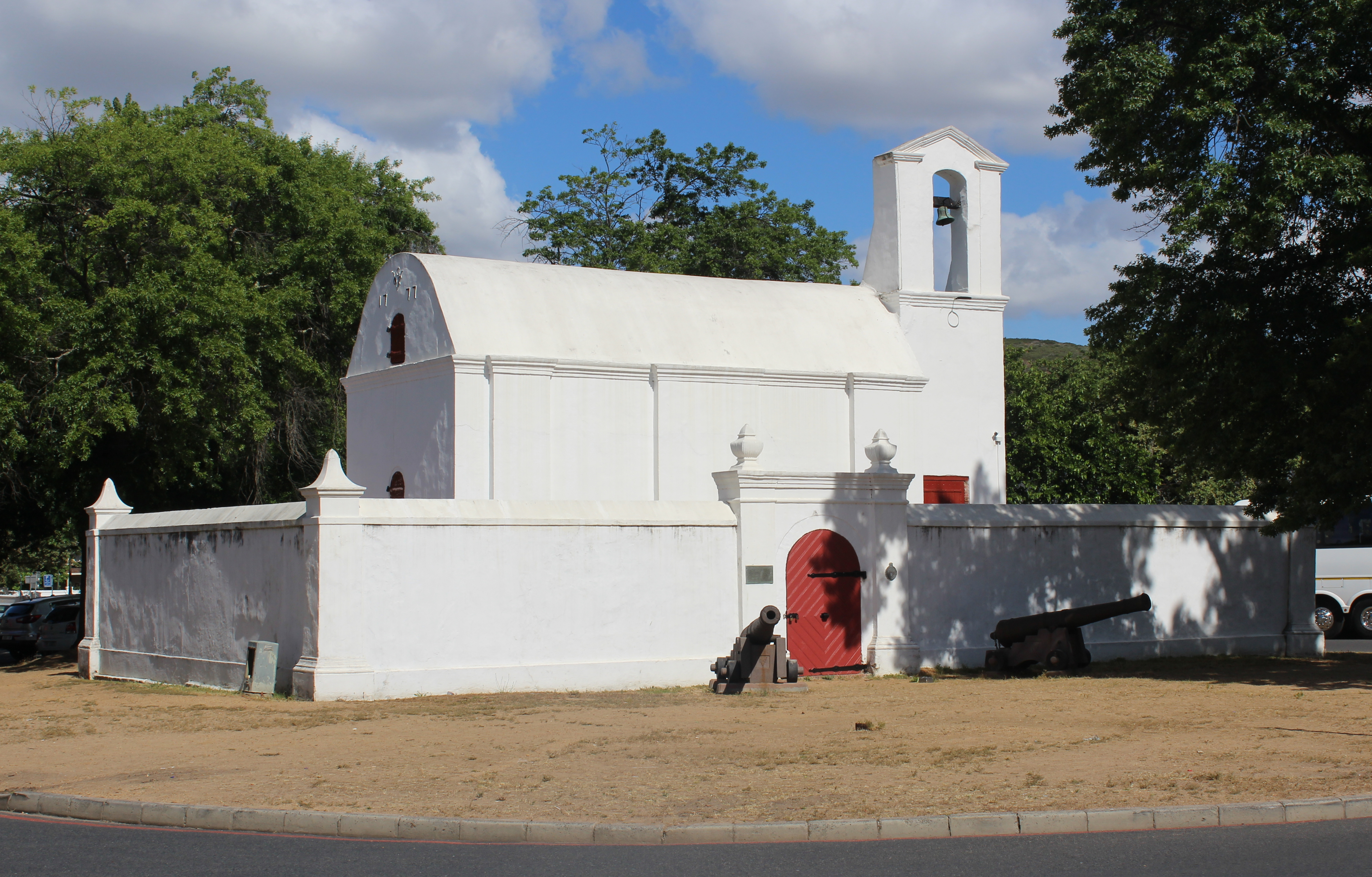 Powder Magazine at Stellenbosch, South Africa, built by the Dutch East India Company (VOC) between 1776 and 1777. The VOC monogram and date are visible on the building's gable. It was declared a historic monument in 1963.